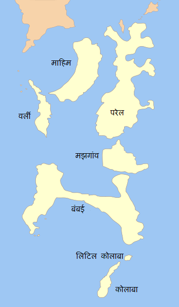 The Seven Islands of Bombay (Now Mumbai) before they were merged to form the island of Salsette.